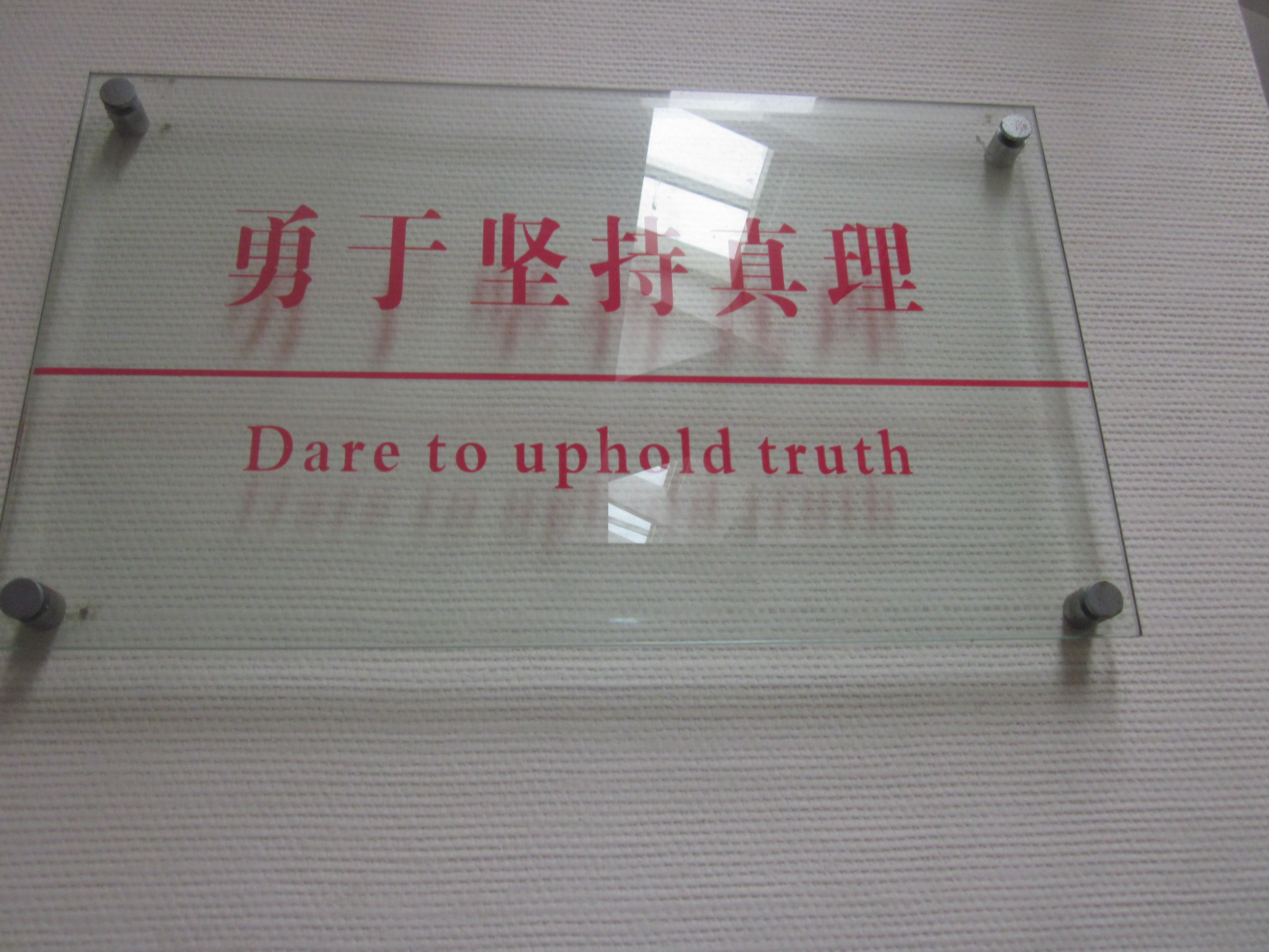 Hu Yaobang's Former Residence (Chinese: 胡耀邦故居), located in Liuyang City, Hunan Province, is one of the famous tourist attractions in China.